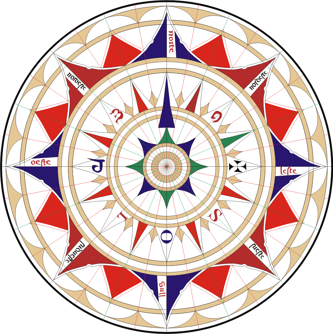 Replica of a wind rose from a chart of Jorge de Aguiar, 1492. See other versions for the original.